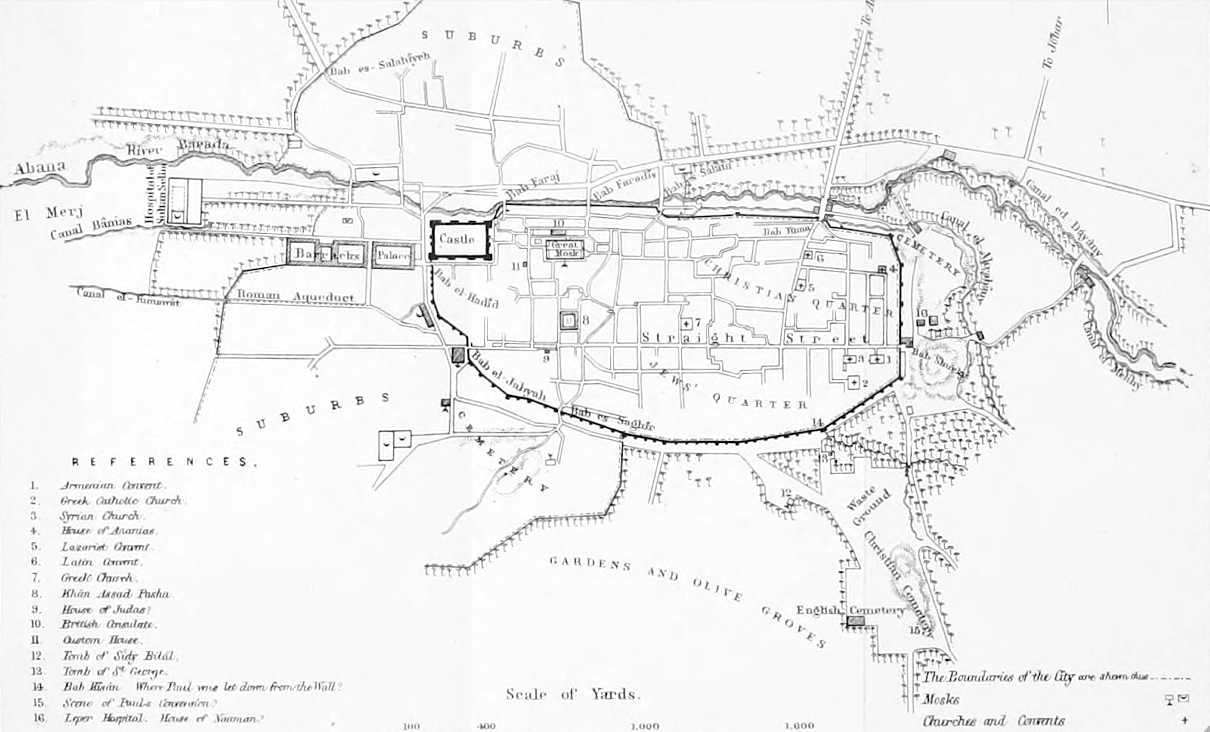 map of Damascus